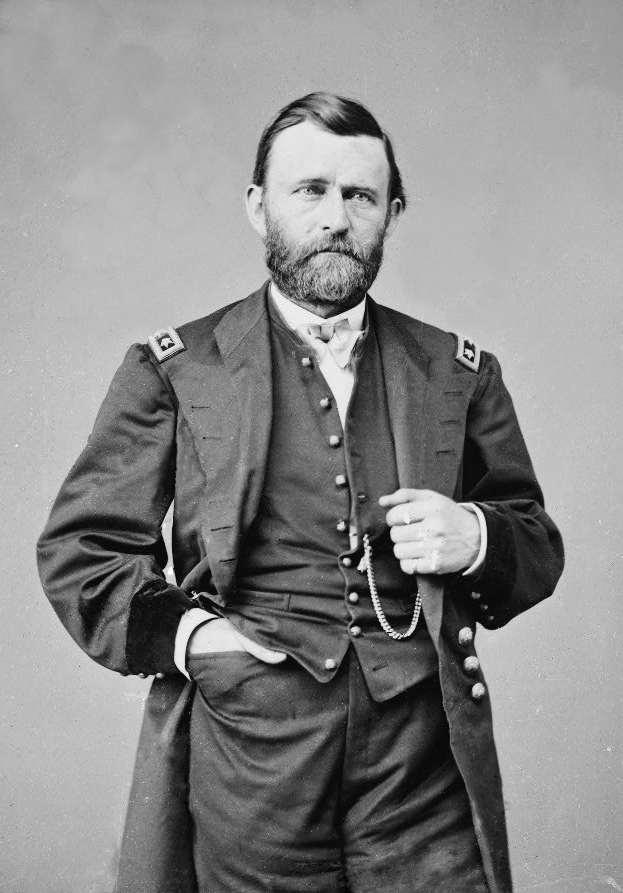 Portrait of Maj. Gen. Ulysses S. Grant, officer of the Federal Army